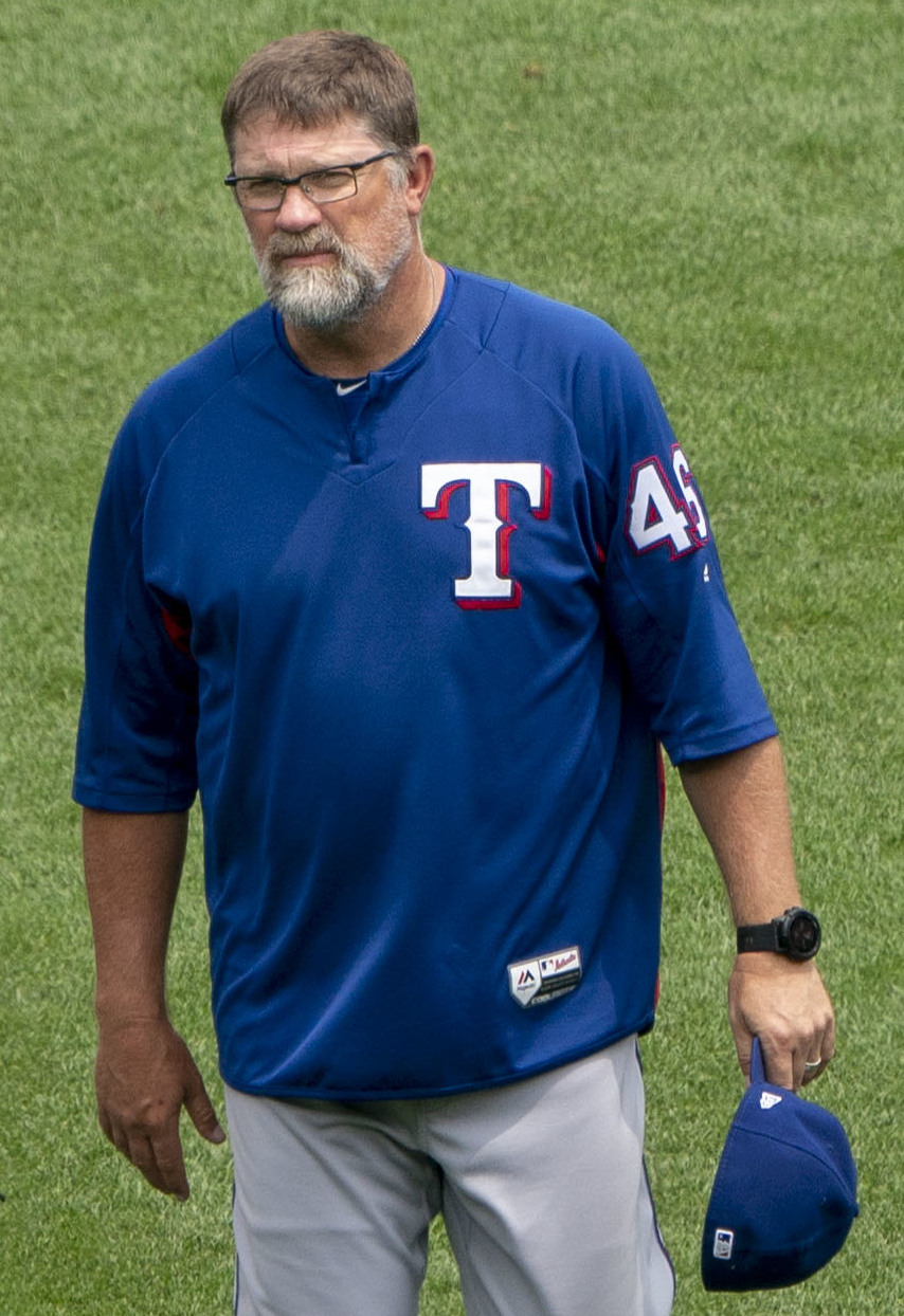 Members of the Texas Rangers including Mike Minor, Doug Brocail and Dan Warthen before a game at Oriole Park at Camden Yards in Baltimore in July 2018.